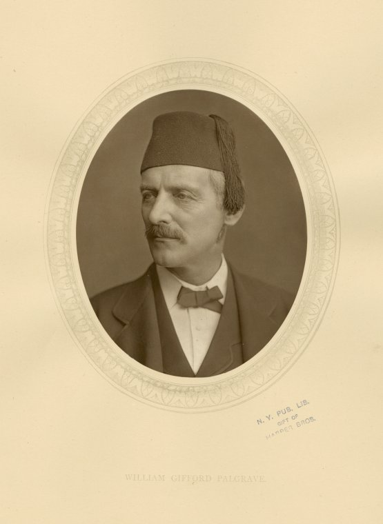 Portrait of William Gifford Palgrave